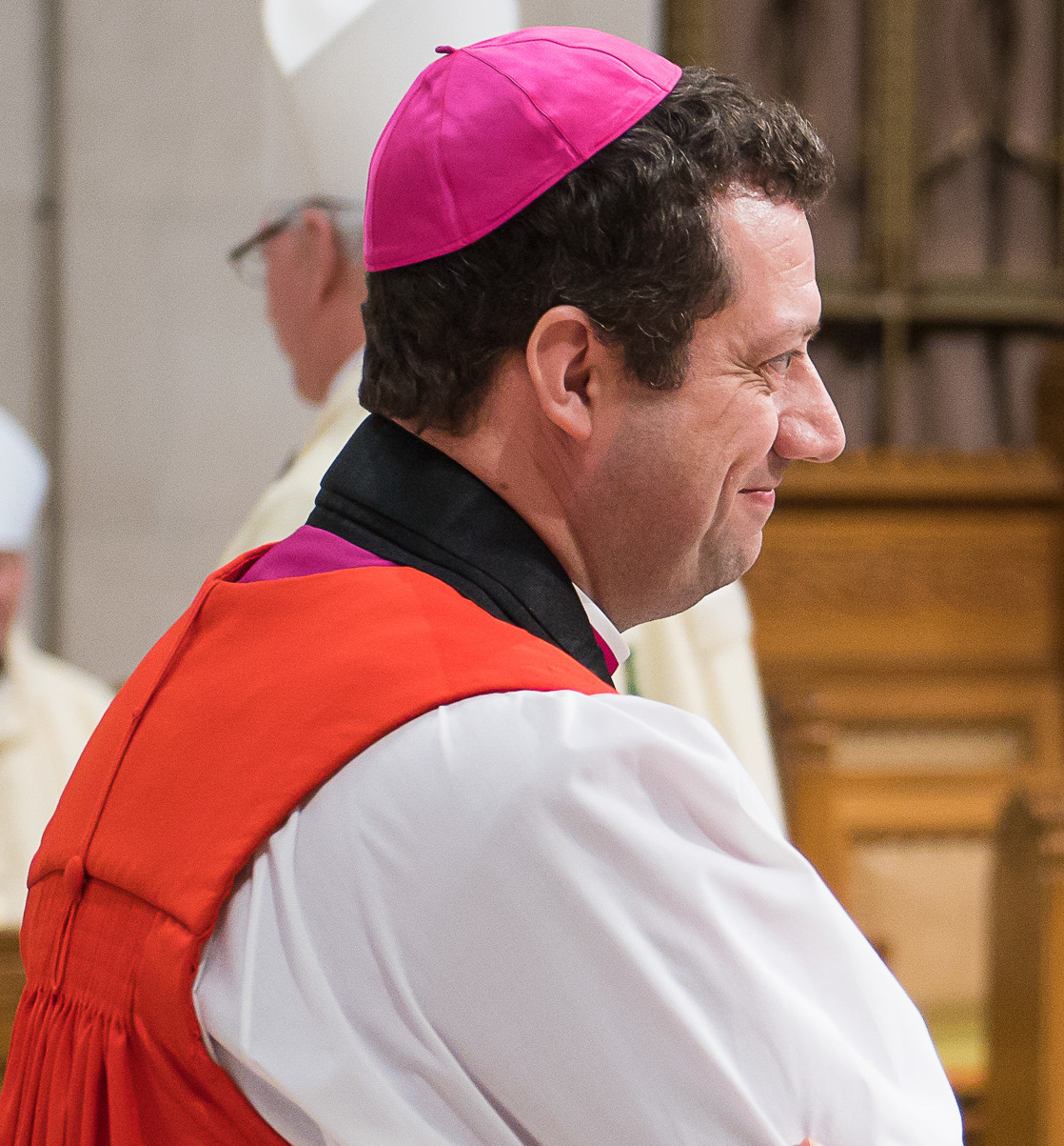 Anglican bishop Bruce Myers and Catholic bishop Louis Corriveau